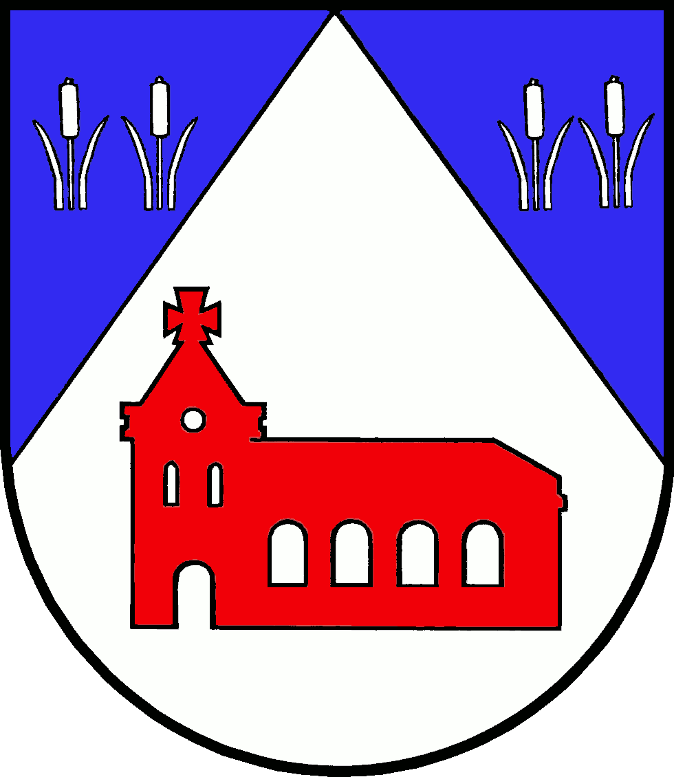 Coat of arms of the municipality Hohenfelde in Schleswig-Holstein, Germany.